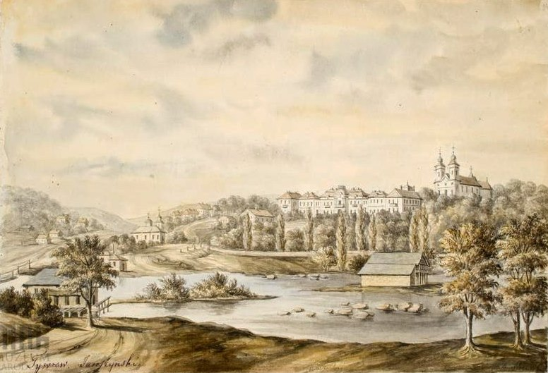 Napoleon Orda. Tyvriv